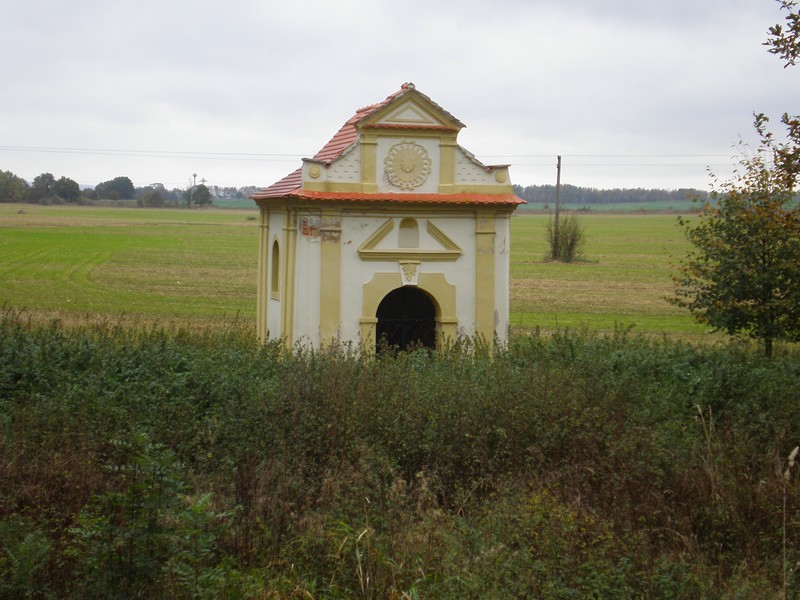 Vokov (Třebeň), Cheb District, Czech Republic; Maria Magdalena chapel